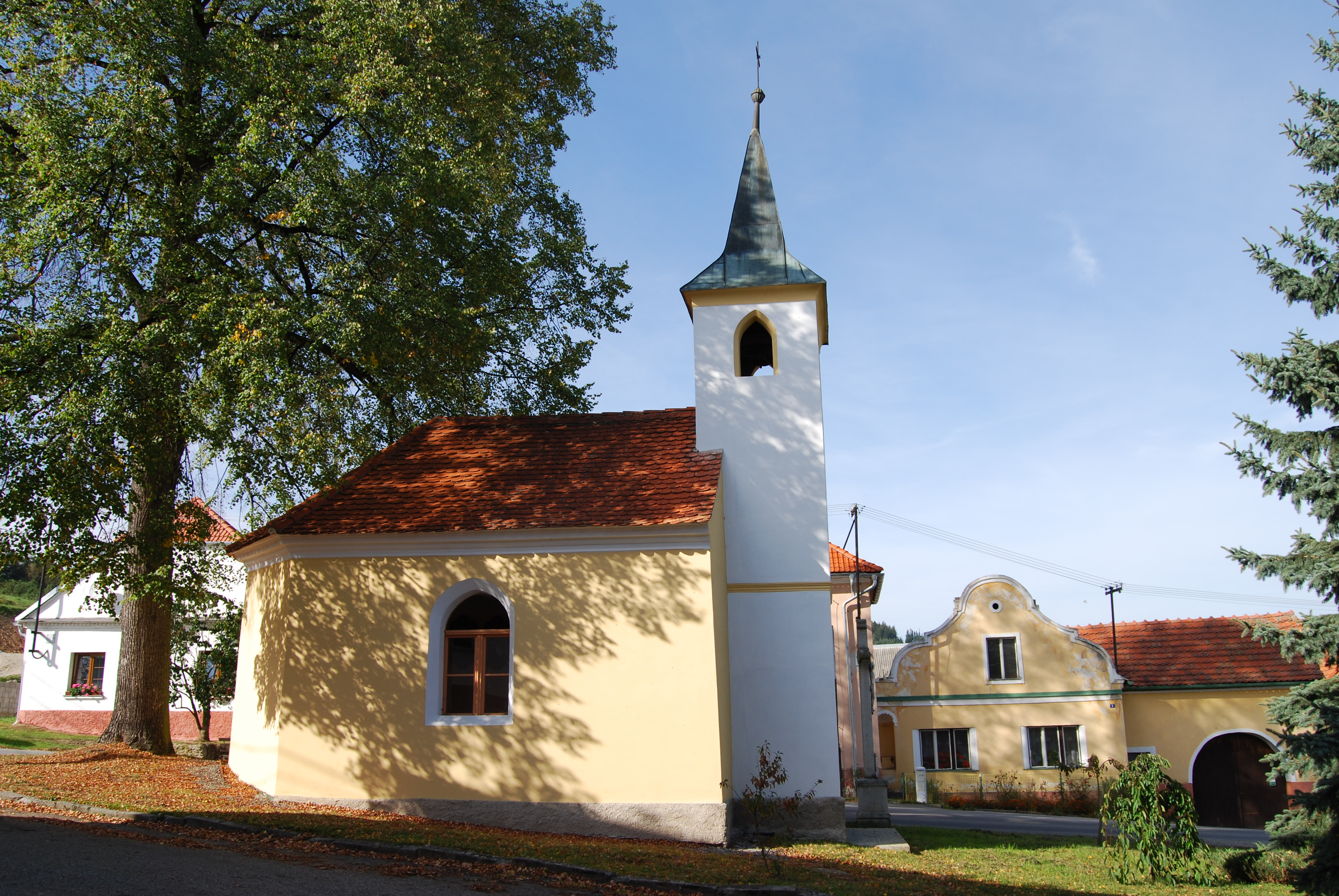 Vadkov village, part of Lhenice town in Prachatice District, Czech Republic. Chapel